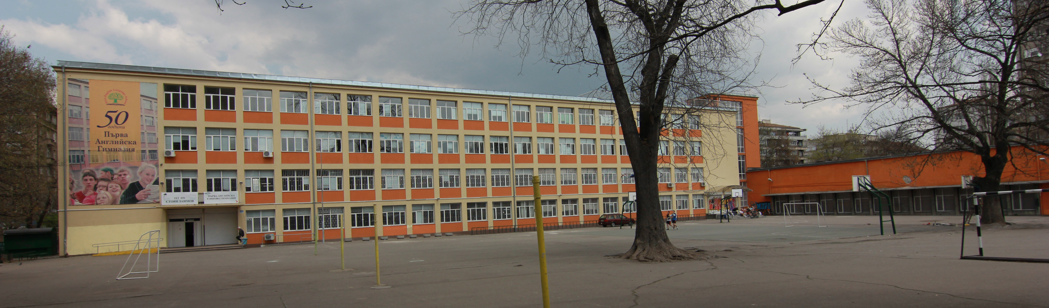 1st English Language High Scchool in Sofia, Bulgaria